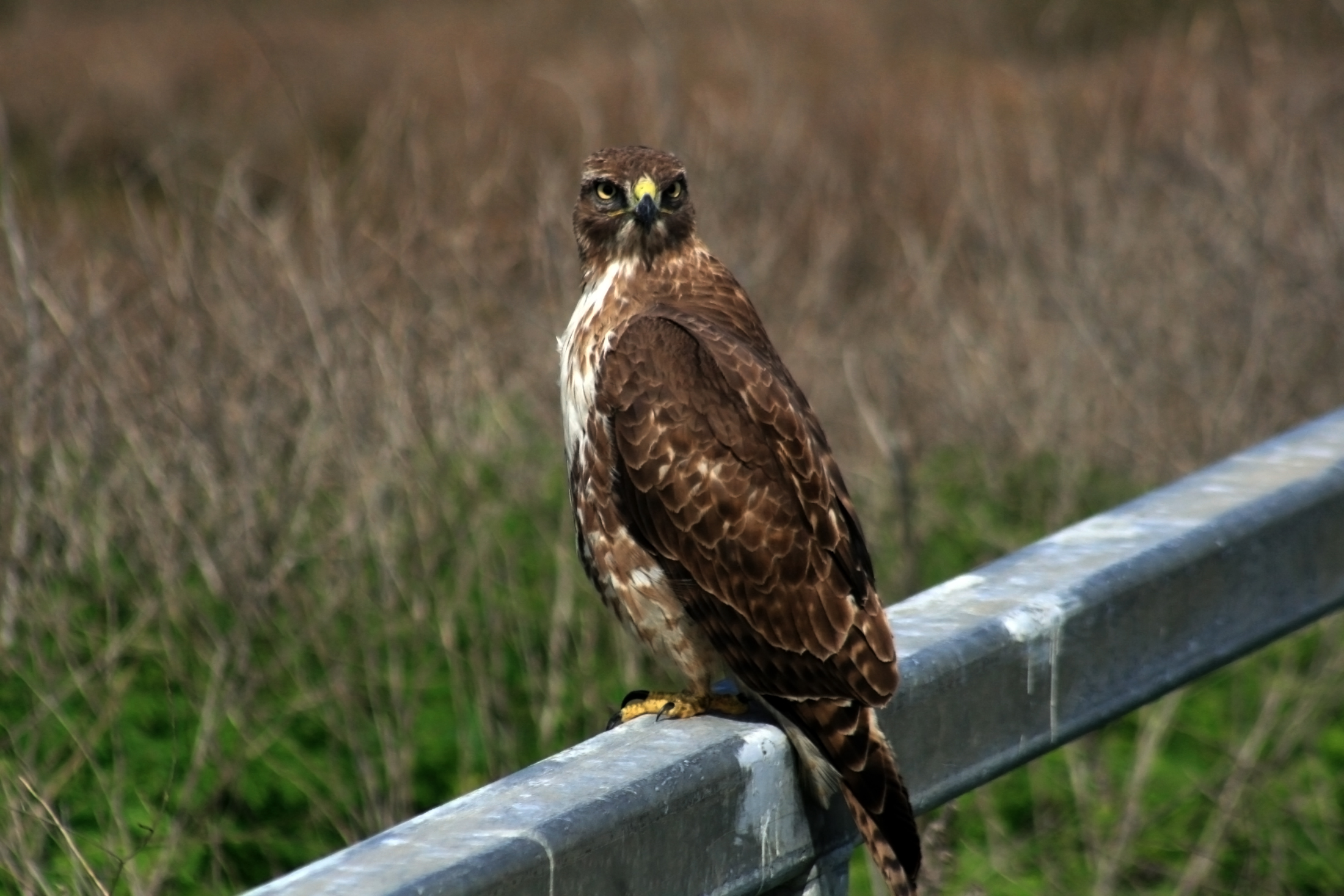 Juvenile Red-tailed hawk, (Buteo jamaicensis) at Moss Landing